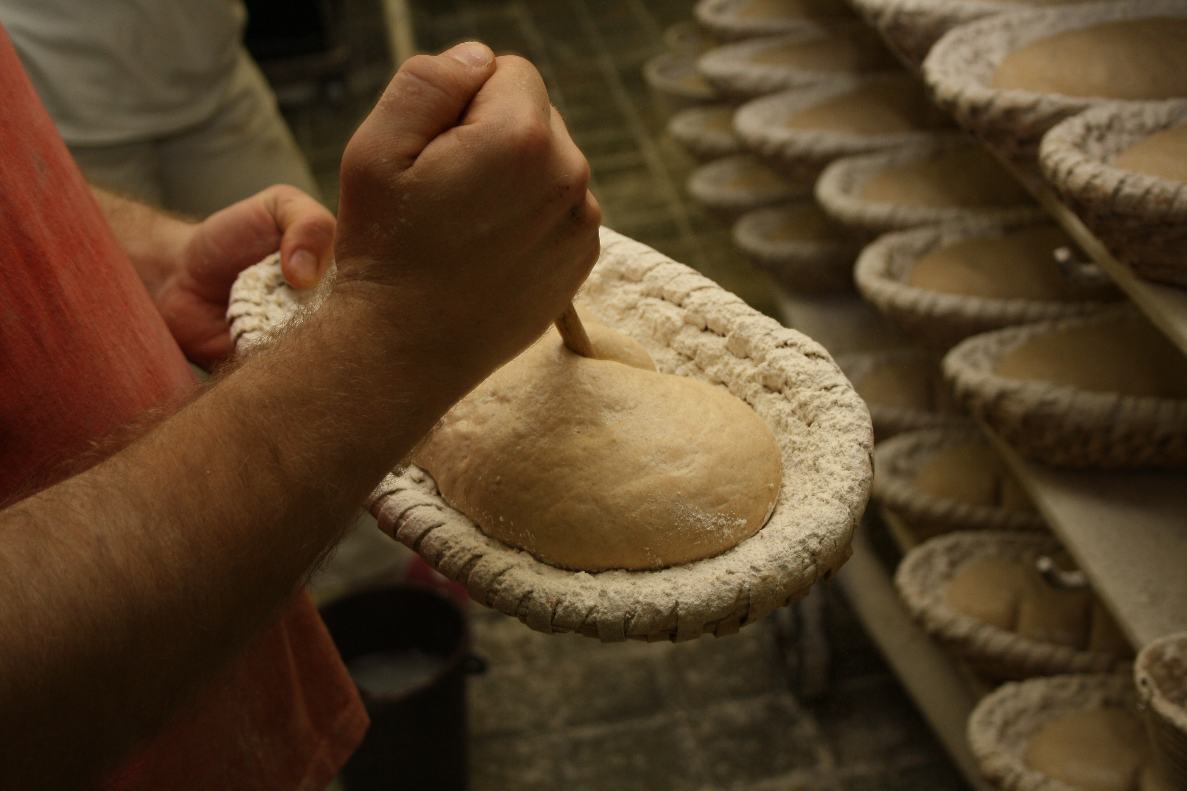 Production process of bread, Czech Republic This photograph was taken with a DSLR from WMCZ's Camera grant. This picture was taken and/or got within the scope of the 'Acquiring scientific and specialized pictures' grant.